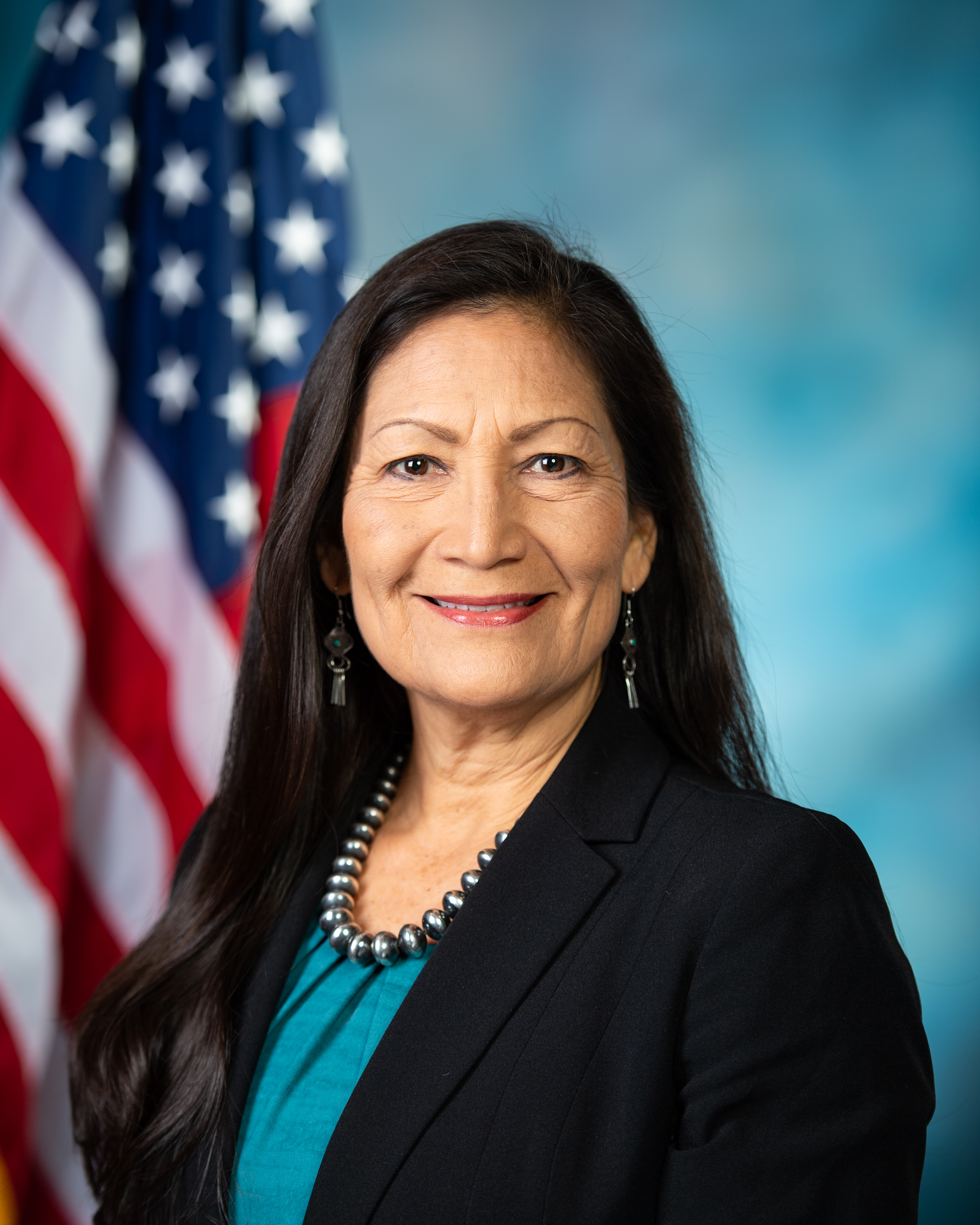 Rep. Deb Haaland (D-NM01)